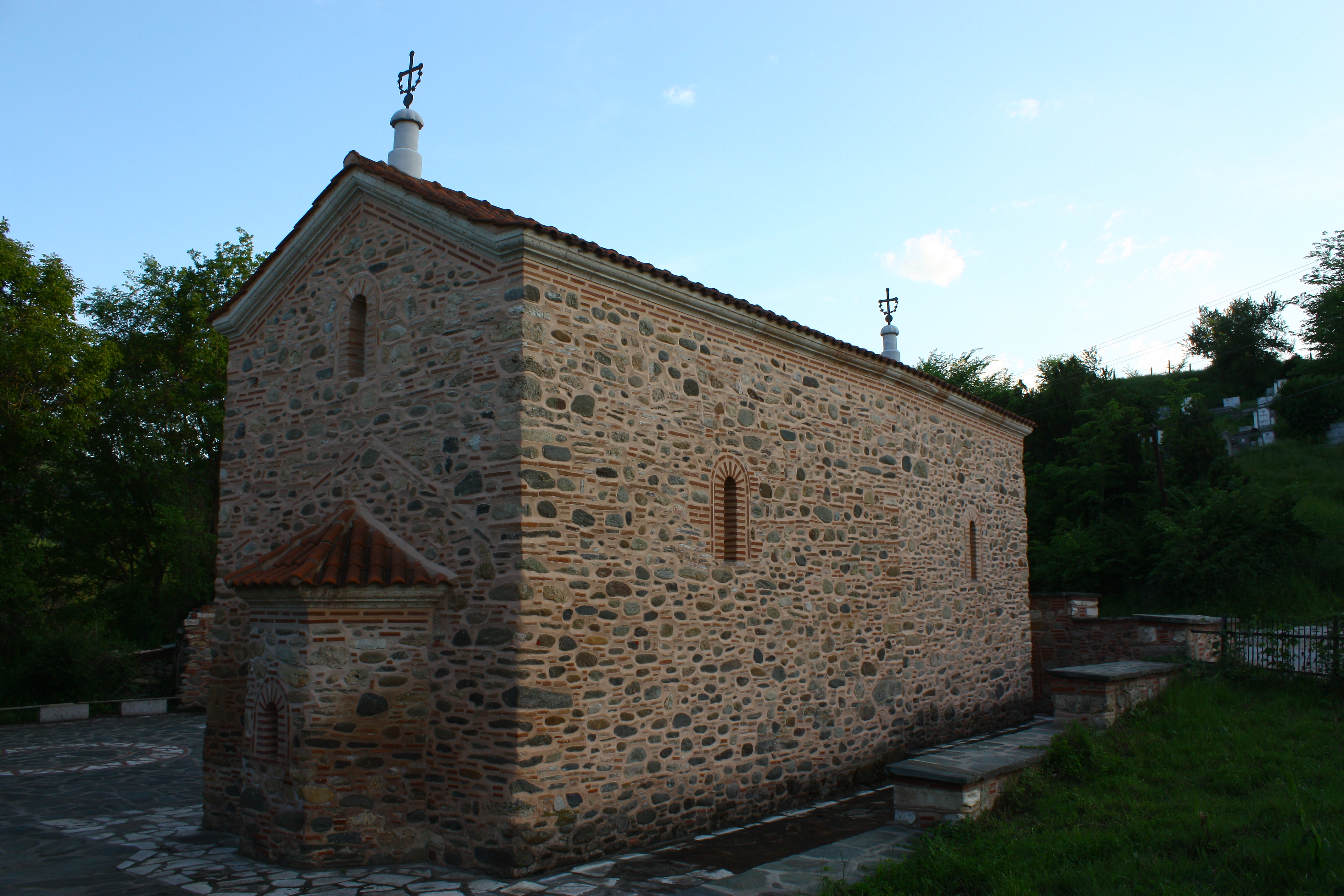 St. Nicholas Church in Markova Sušica, Macedonia